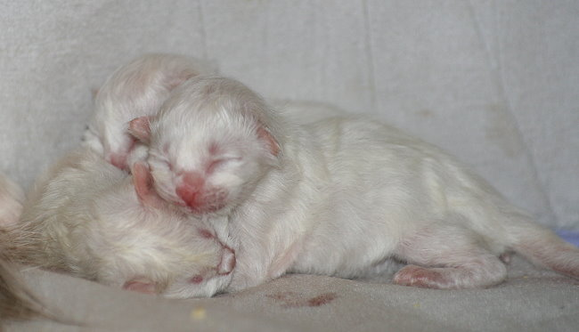 kitten